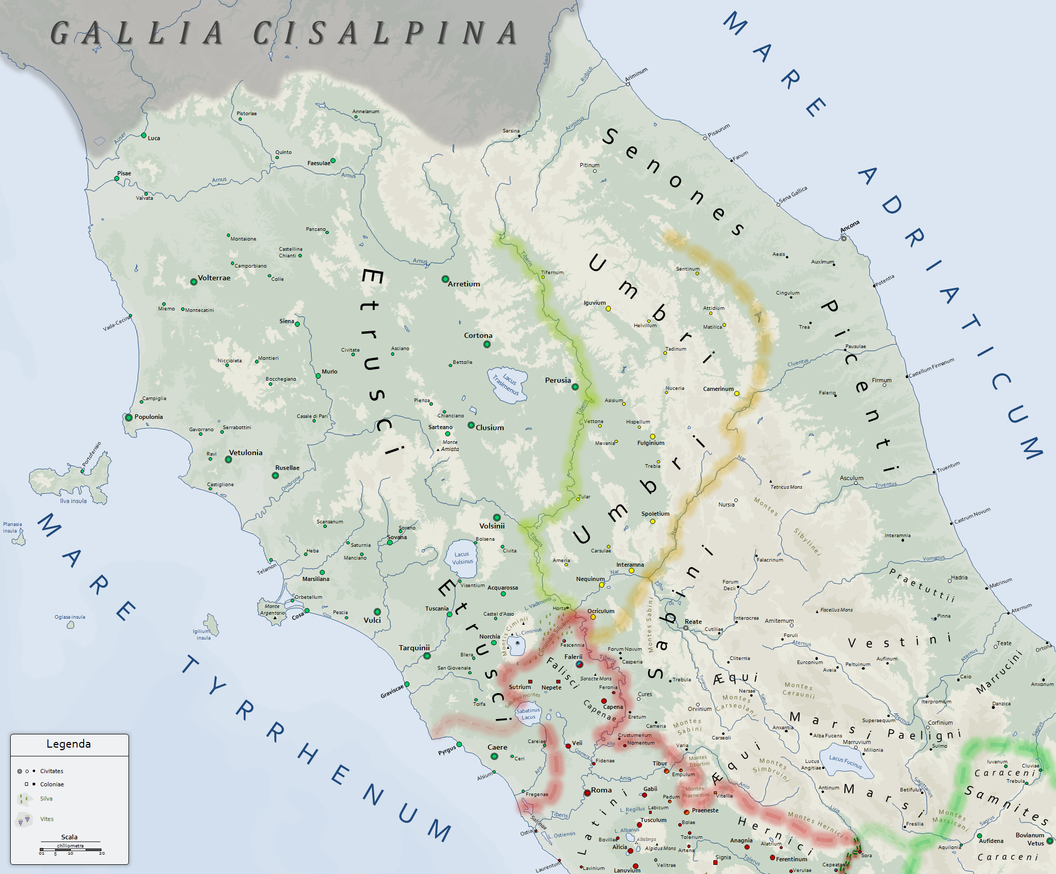 See Guerre romano-étrusque (311 - 308)#Contexte for the full legend/caption of the map.